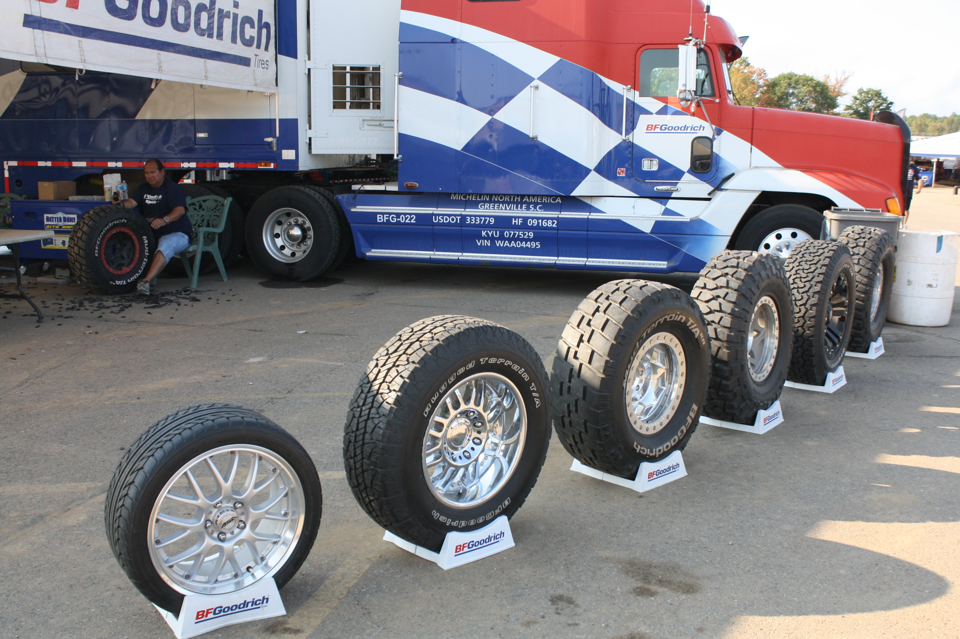 A series of BFGoodrich tires on display at the Crandon International Off-Road Raceway world championship weekend.